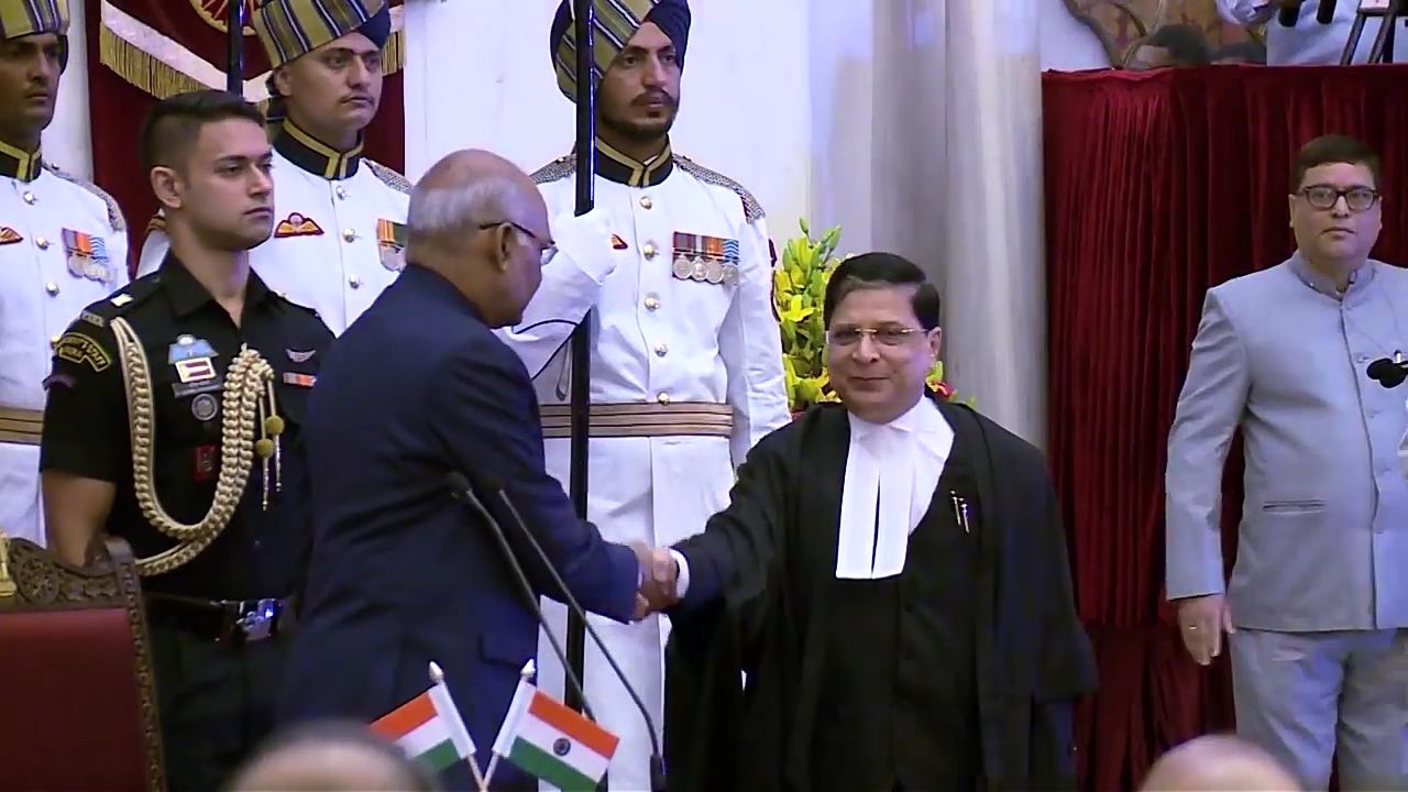 Shri. Justice Dipak Misra Sworn in as the Chief Justice of the Supreme Court of India